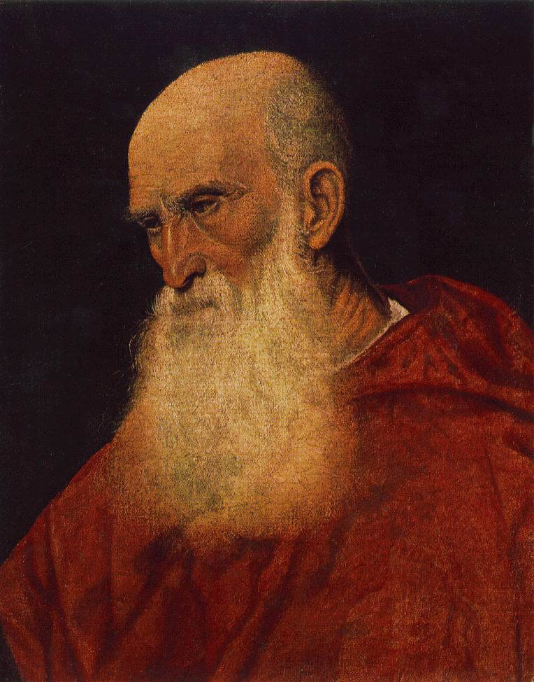 TIZIANO Vecellio Portrait of Pietro Cardinal Bembo 1545-46 Oil on canvas, 58 x 46 cm Museum of Fine Arts, Budapest